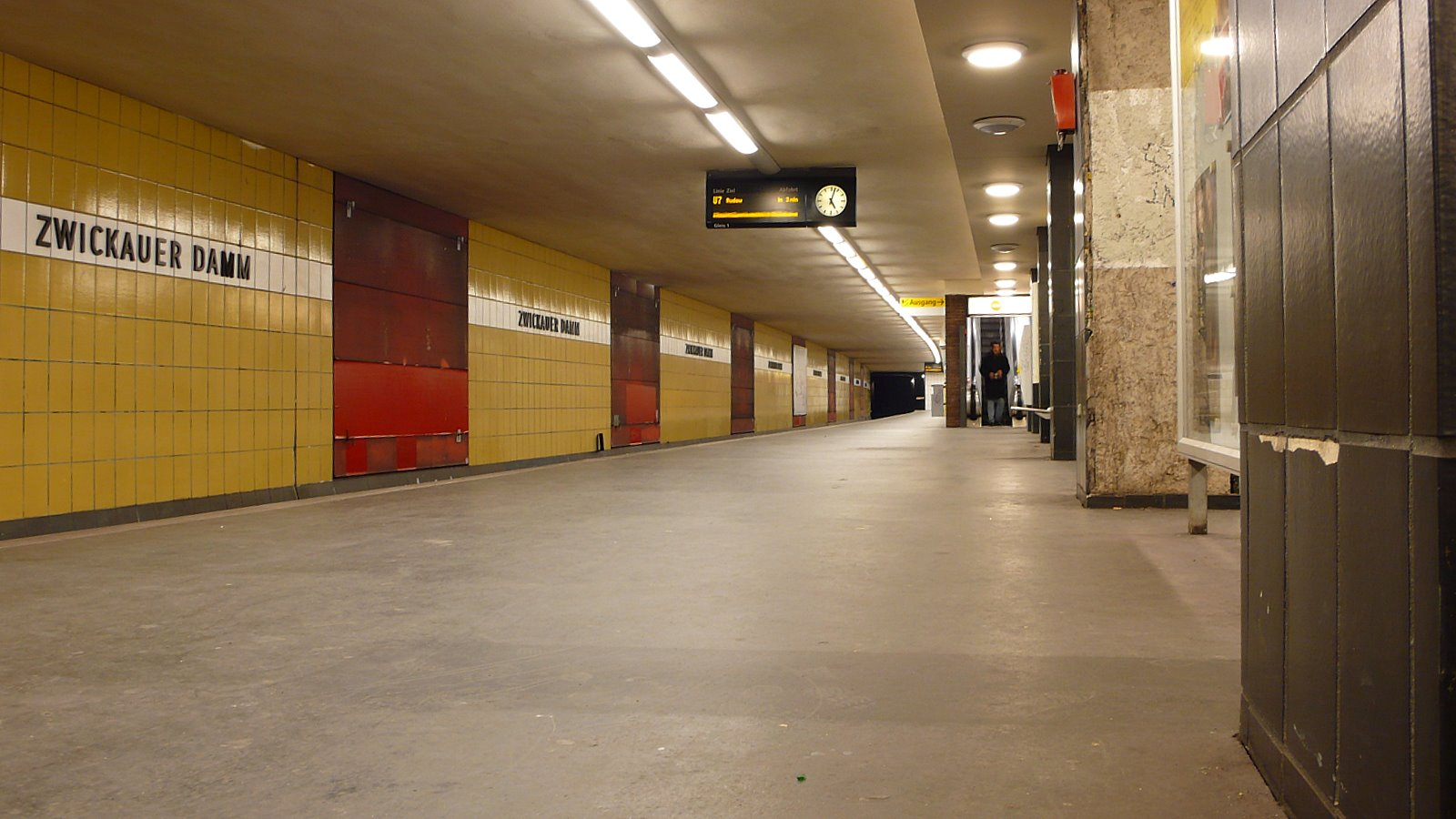 Zwickauerdamm